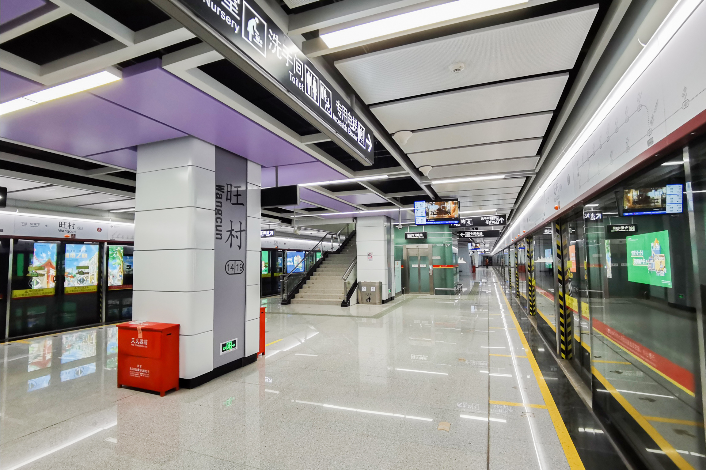 广州地铁旺村站